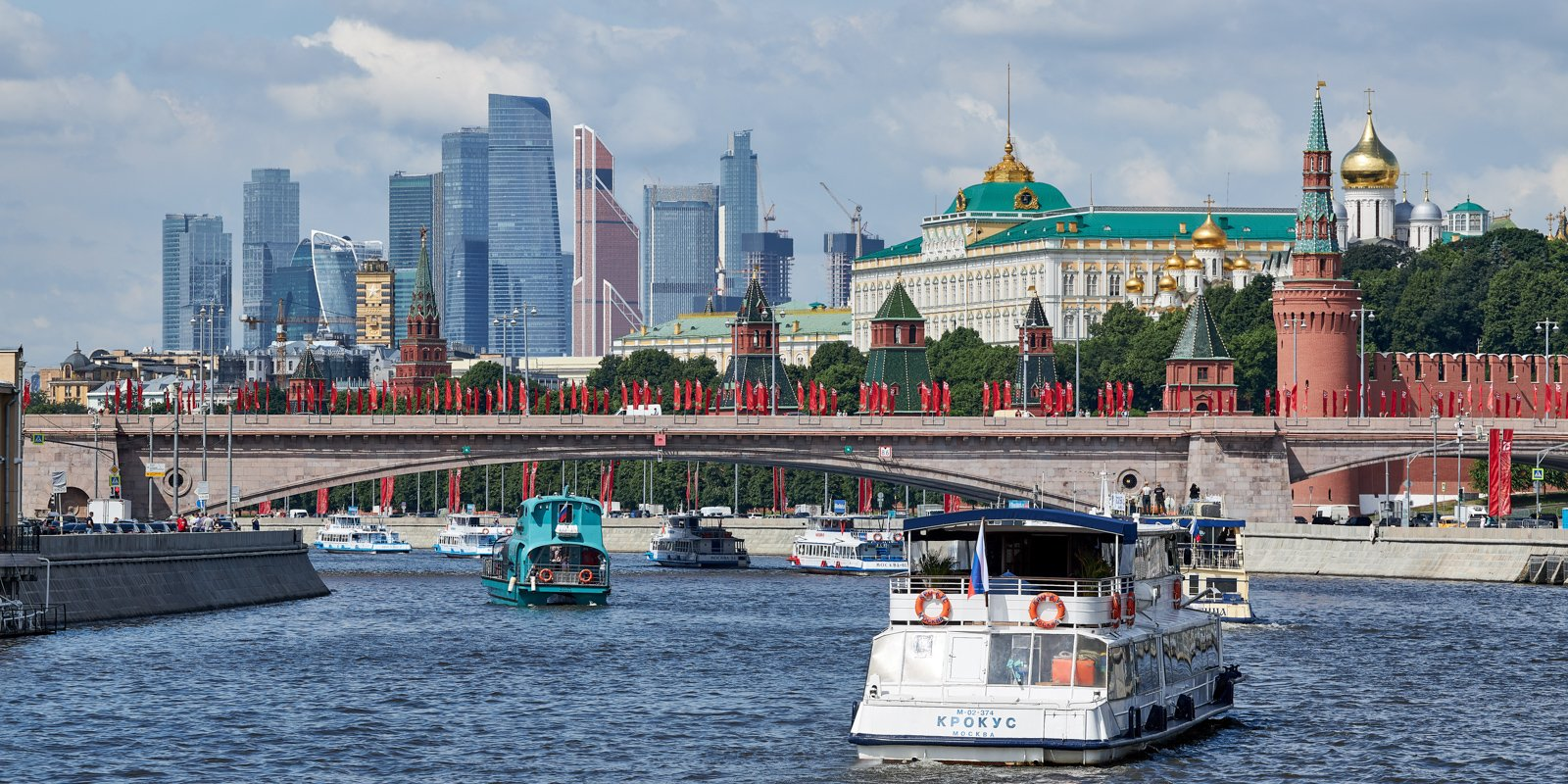 Bolshoy Moskvoretsky Bridge and Moscow International Business Center